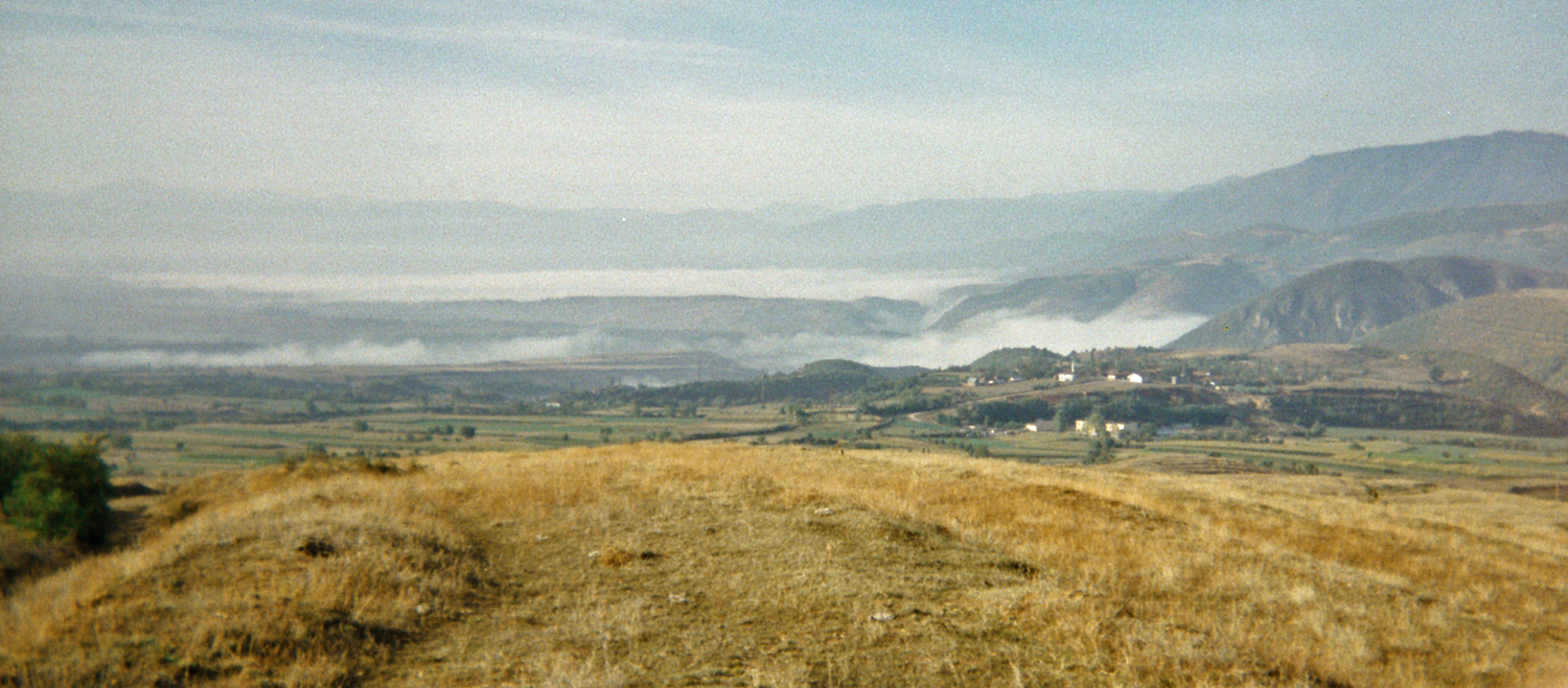 Dibra, Albania: a foggy morning in autumn South of Peshkopi